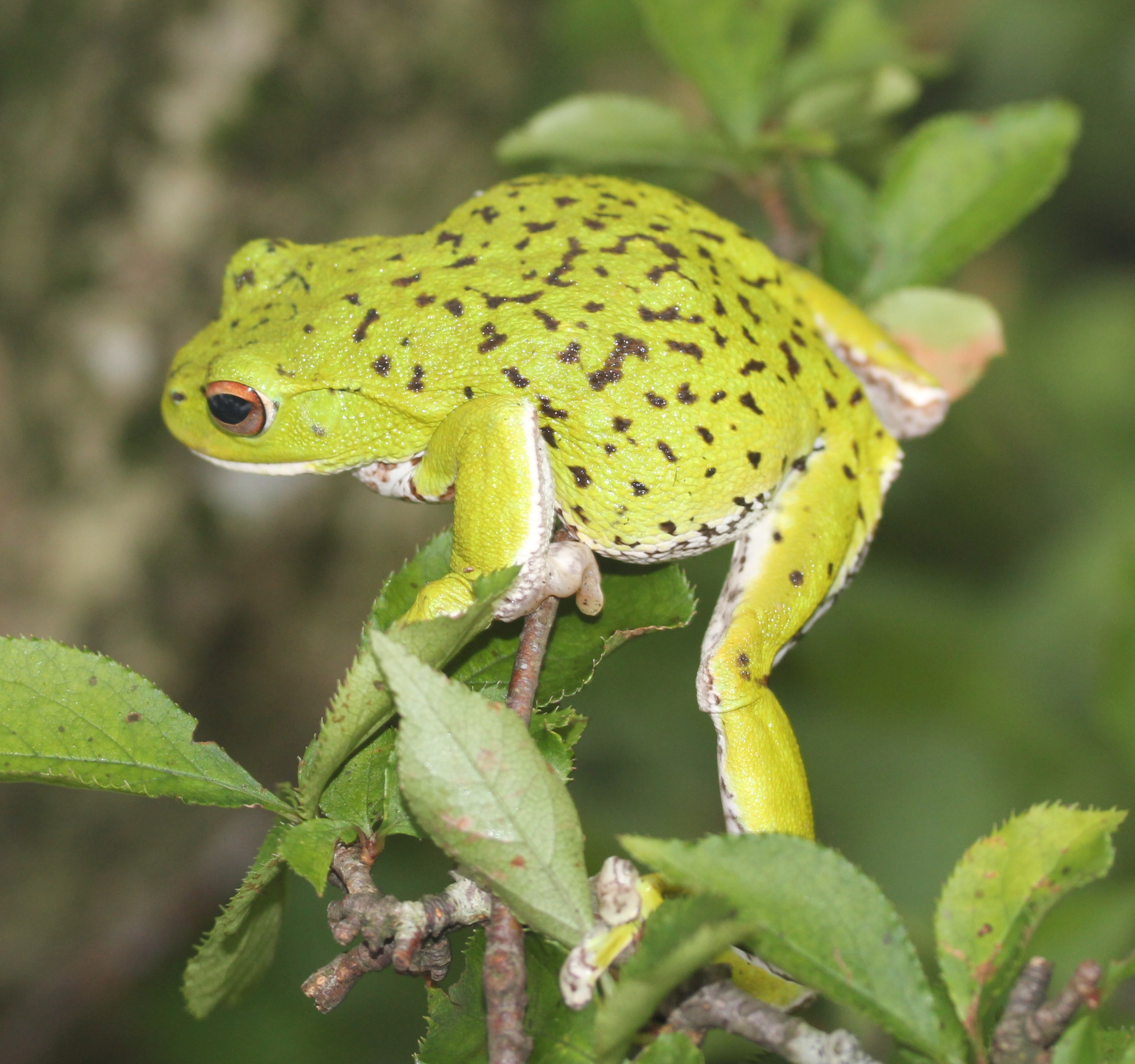 Rhacophorus arboreus in Mount Ibuki, Shiga pref., Japan.